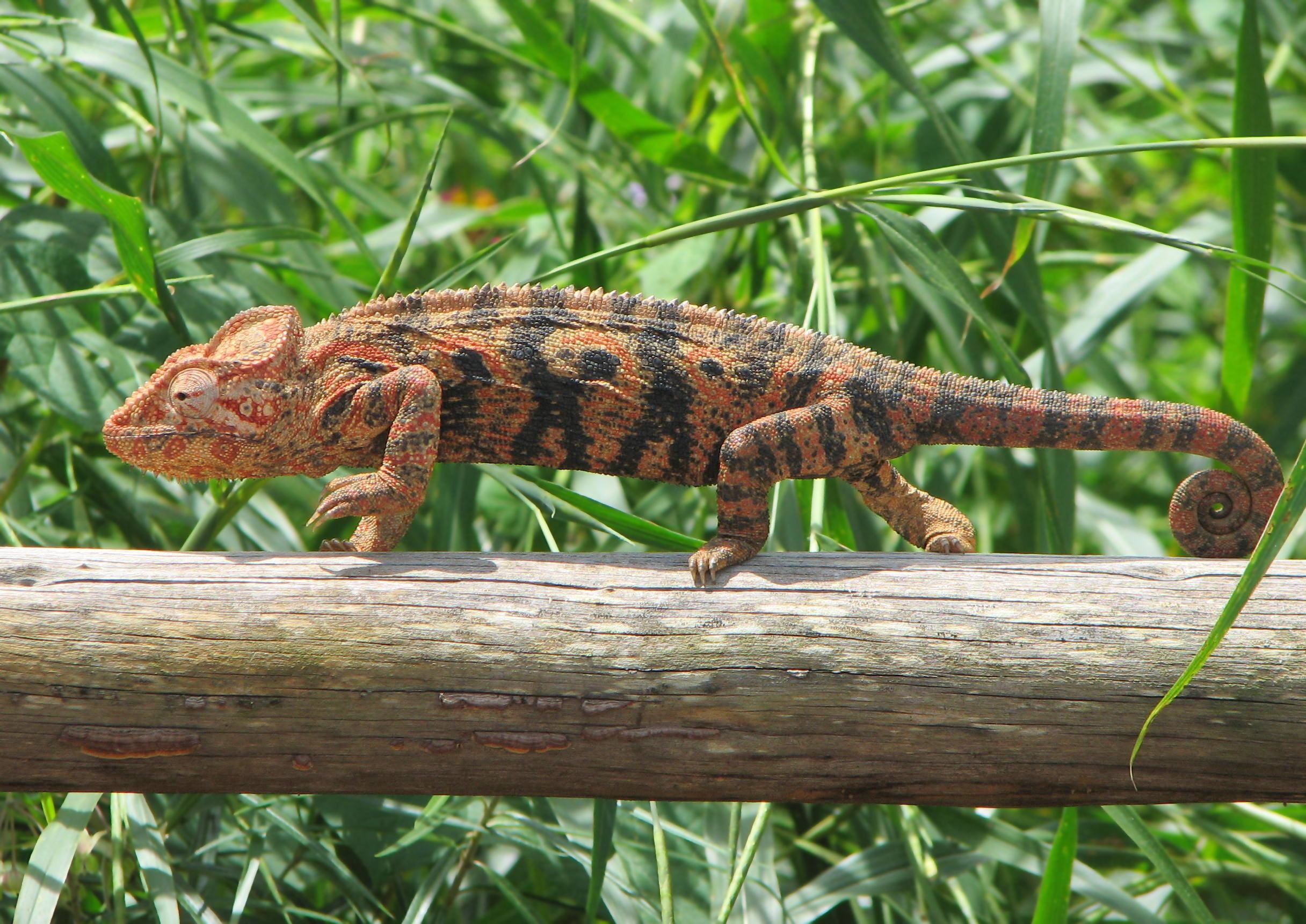 Oustalet's Chameleon, Ambalavao, Madagascar. The image shows the different groupings of the toes on the front and hind feet. This is a male.